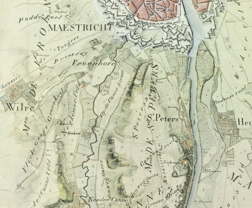 Detail of Tranchot map of 1803-1820 with the southwestern tip of the town of Maastricht and some villages in the County of Vroenhof.